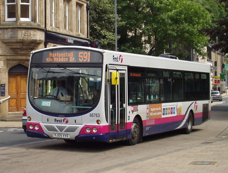 First Wright Eclipse YJ05 VVE in Hebden Bridge.